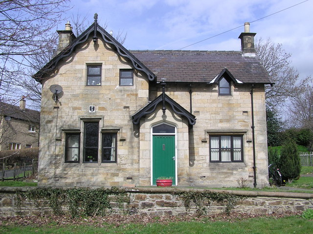 Station House : Gainford. Darlington to Barnard Castle Branch Line 1856-1965.